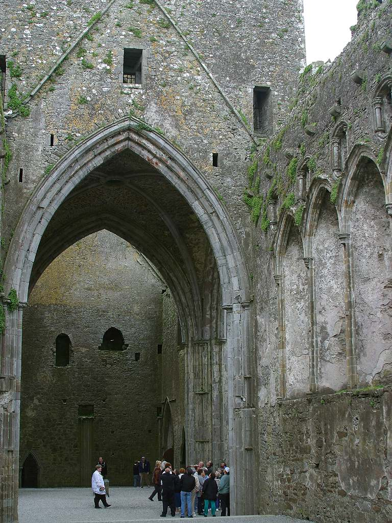 Inside the Rock of Cashel. Photograph taken June 15, 2004, with a Canon D60 camera. [1]